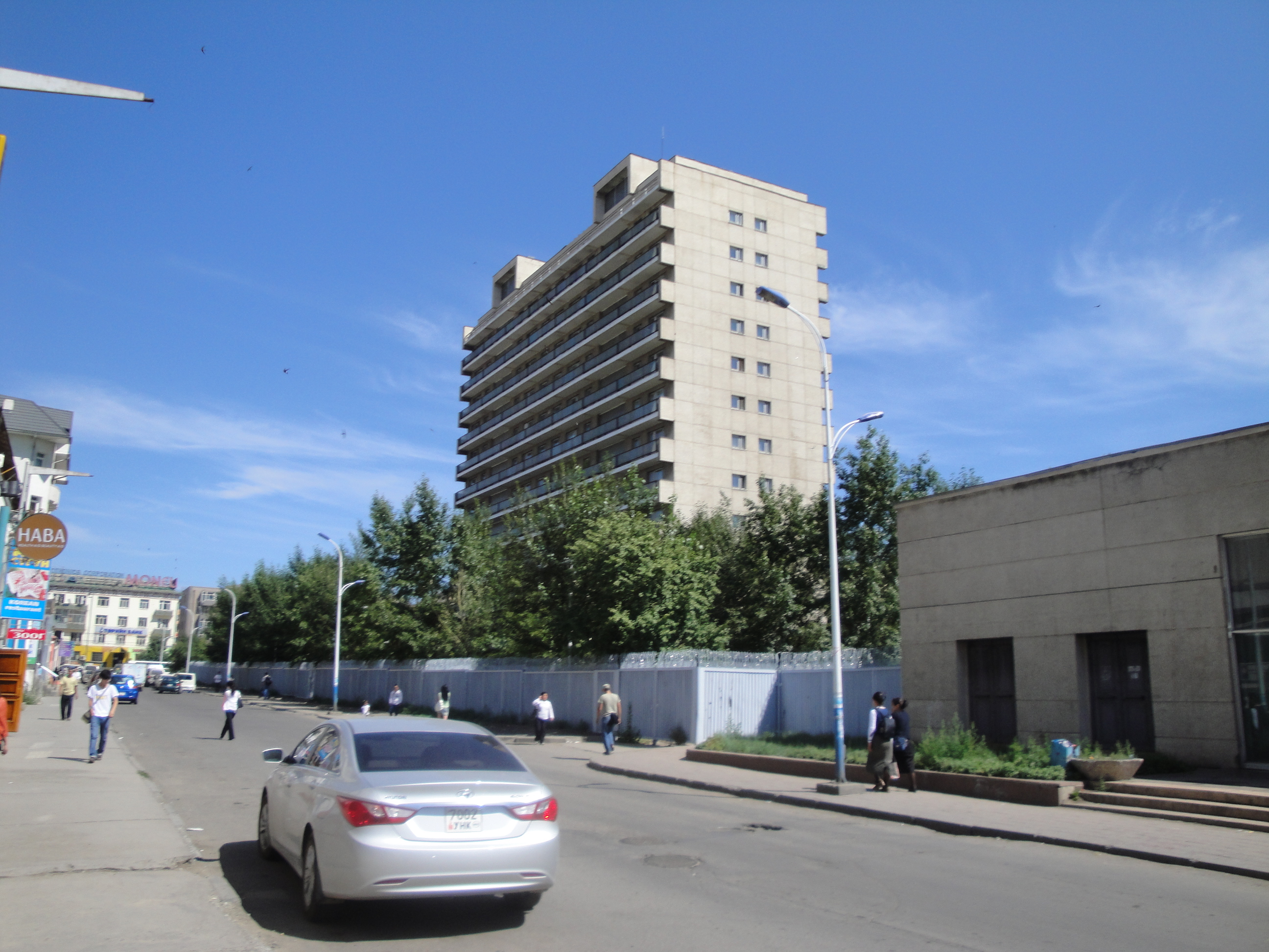 Russian embassy compound in Ulan Bator